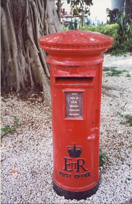 Post box at Lucaya, Bahamas